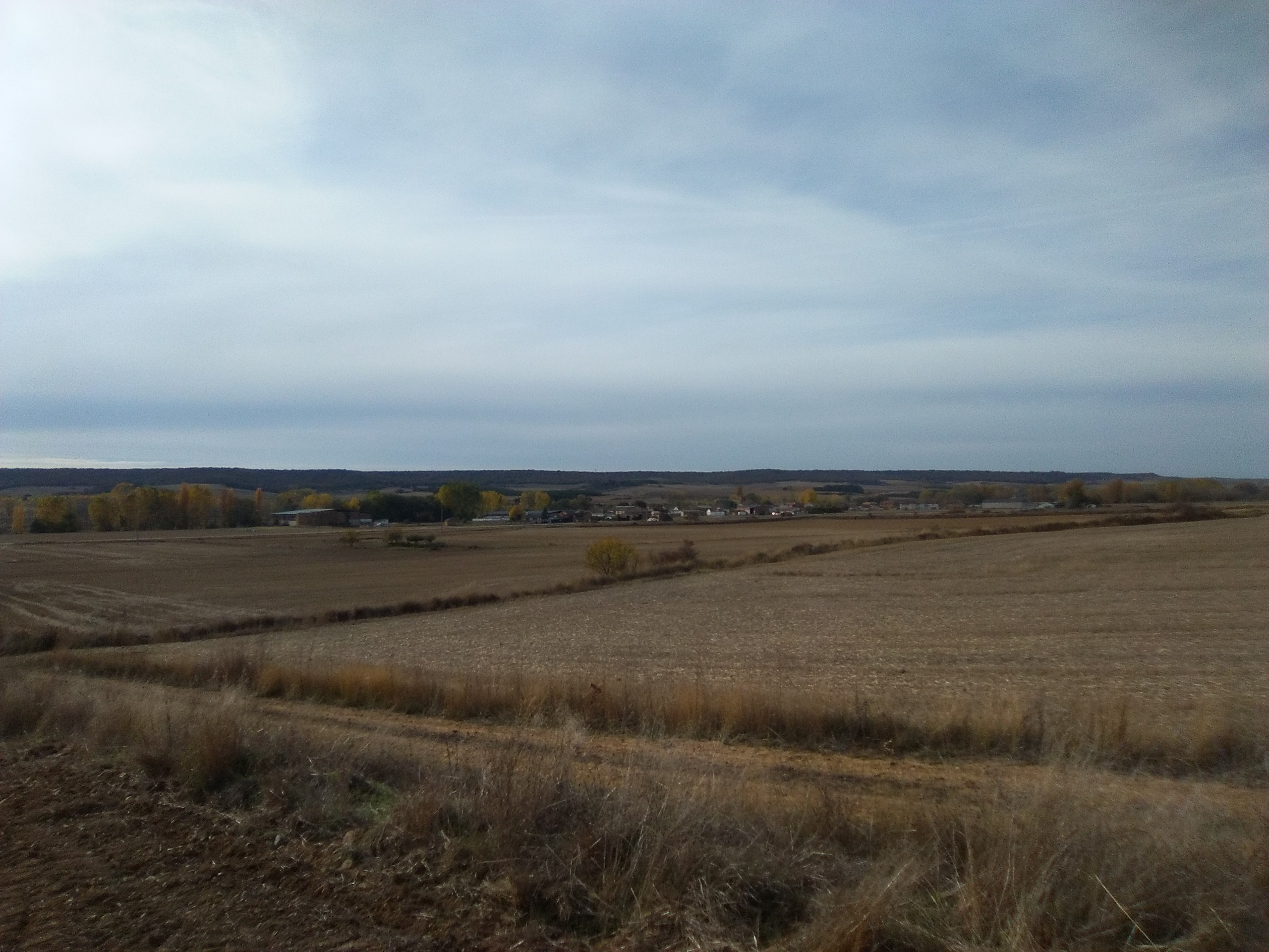 Place where Cardeñosa stood, abandoned old medieval little village close to Villasila de Valdavia (Palencia, Castile and León)